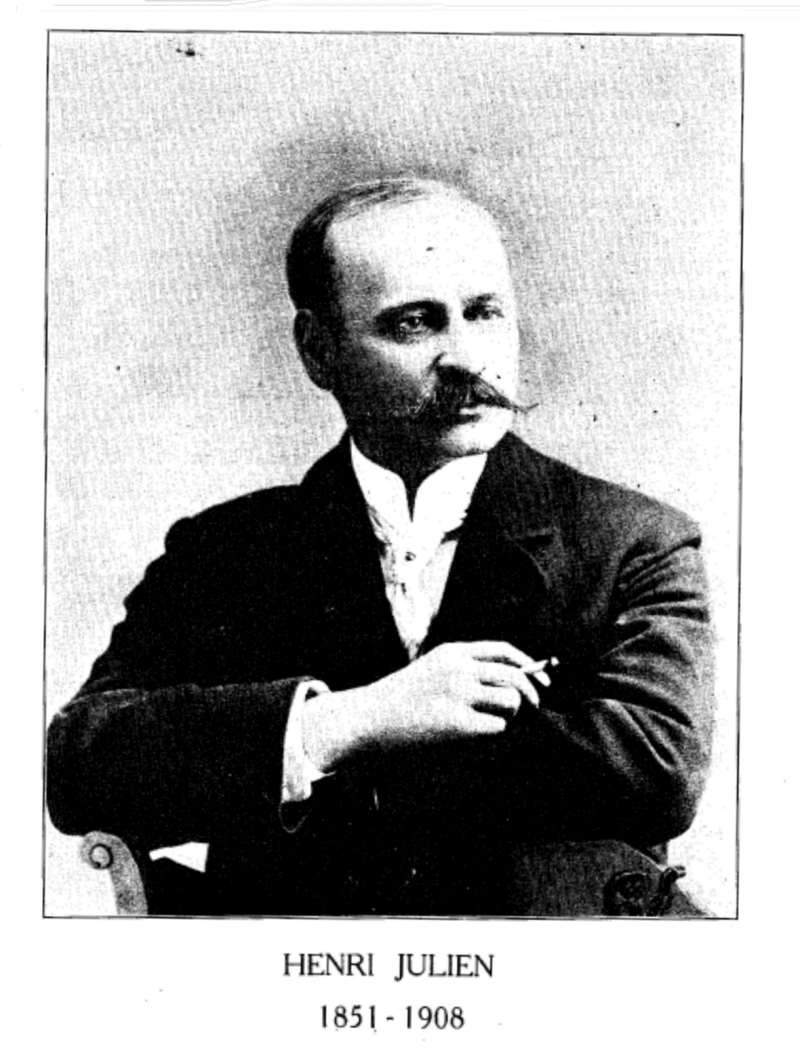 Photograph of the artist Henri Julien